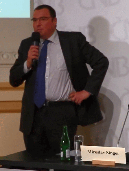 Miroslav Singer (* 1968), Czech economist, from July 2010 to July 2016 the governor of the Czech National Bank (CNB). He was speaking to visitors at the event "Czech National Bank open day" on June 4, 2016. It was less than a month before the expiry of his mandate of the Governor of the Czech National Bank.